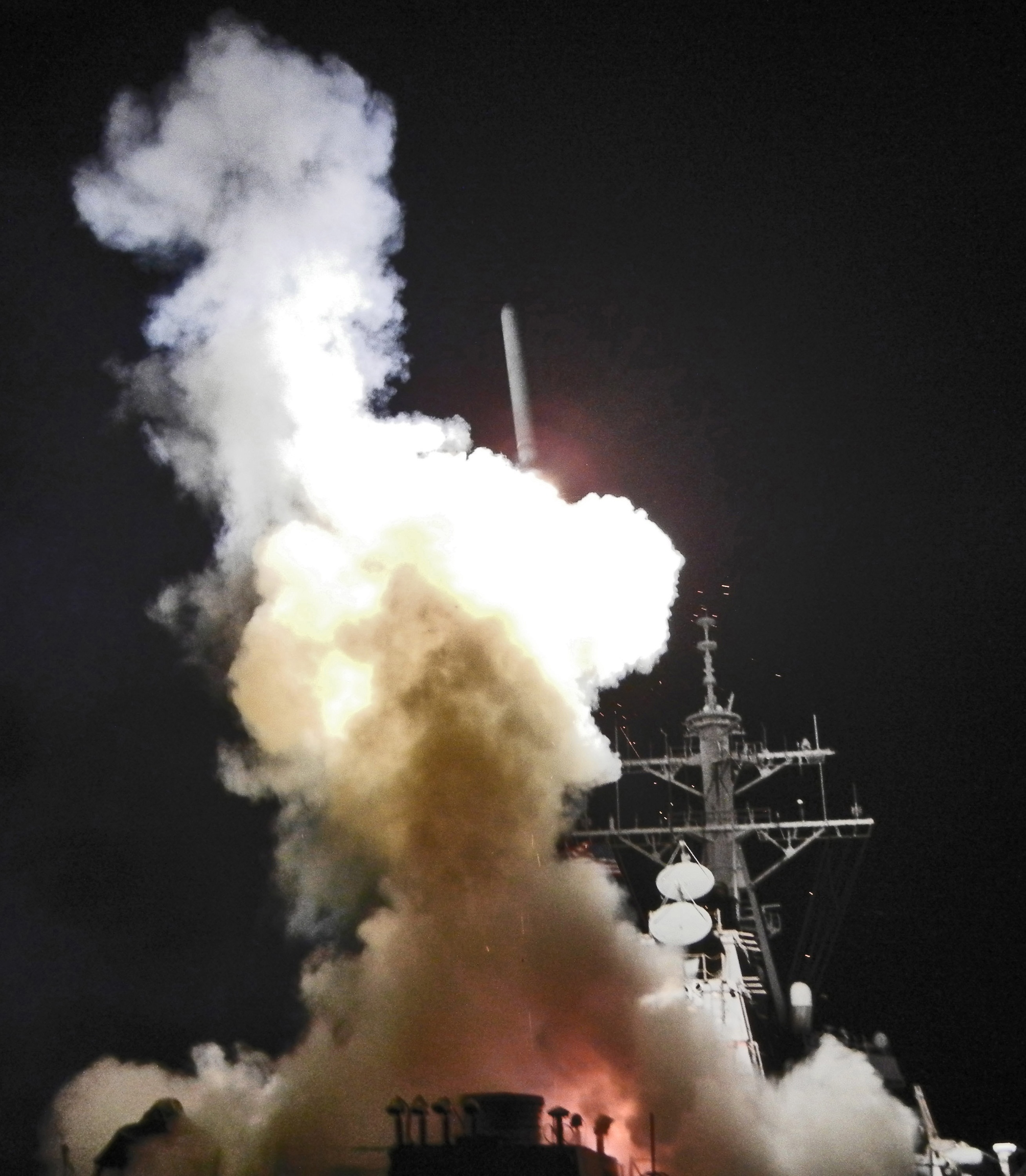 110319-N-7231E-001 MEDITERRANEAN SEA (March 19, 2011) The Arleigh Burke-class guided-missile destroyer USS Barry (DDG 52) launches a Tomahawk missile in support of Operation Odyssey Dawn. This was one of approximately 110 cruise missiles fired from U.S. and British ships and submarines that targeted about 20 radar and anti-aircraft sites along Libya's Mediterranean coast. Joint Task Force Odyssey Dawn is the U.S. Africa Command task force established to provide operational and tactical command and control of U.S. military forces supporting the international response to the unrest in Libya and enforcement of United Nations Security Council Resolution (UNSCR) 1973.